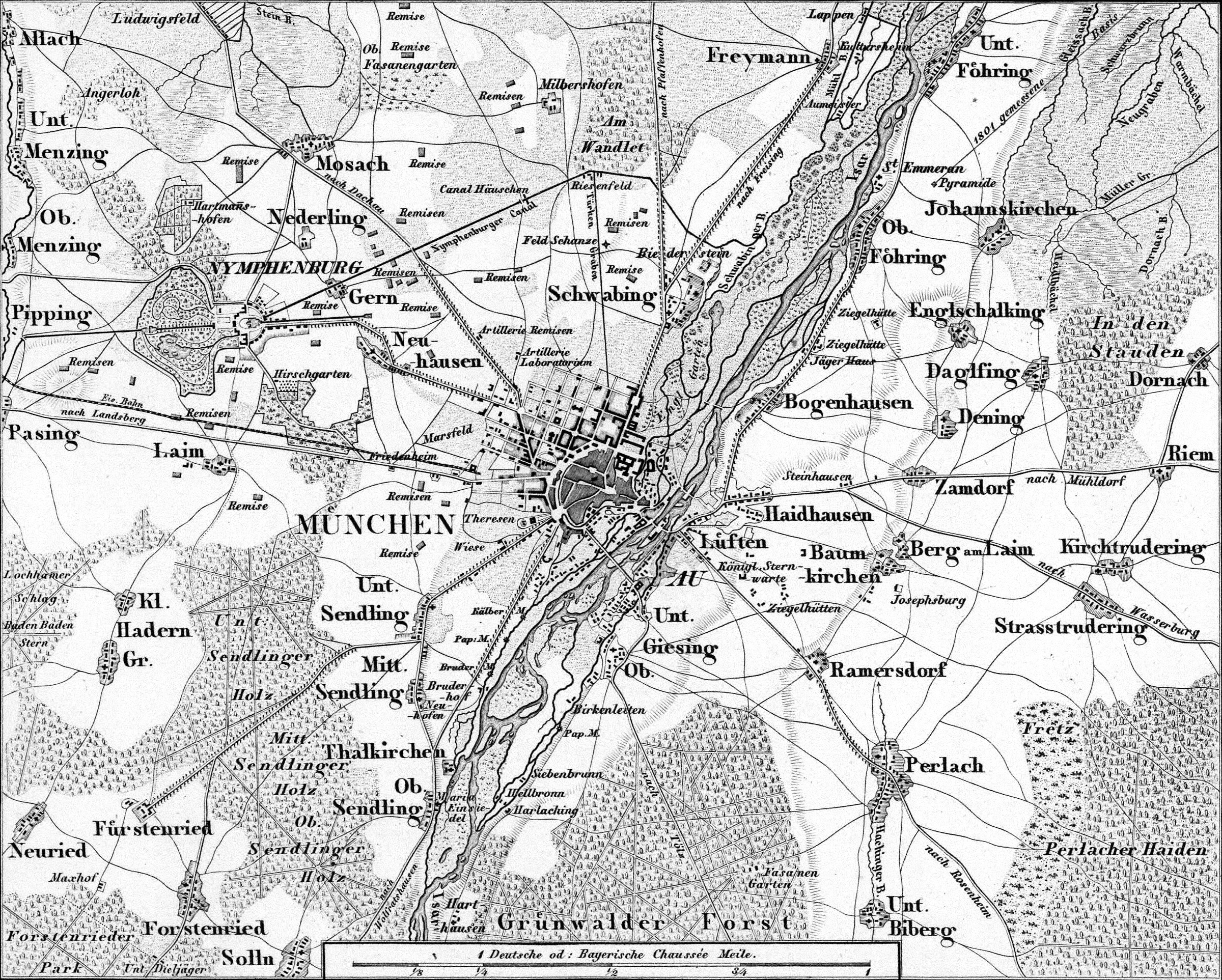 Munich and surroundings in 1856. Detail map from the map of the kingdom Bavaria in 1856.